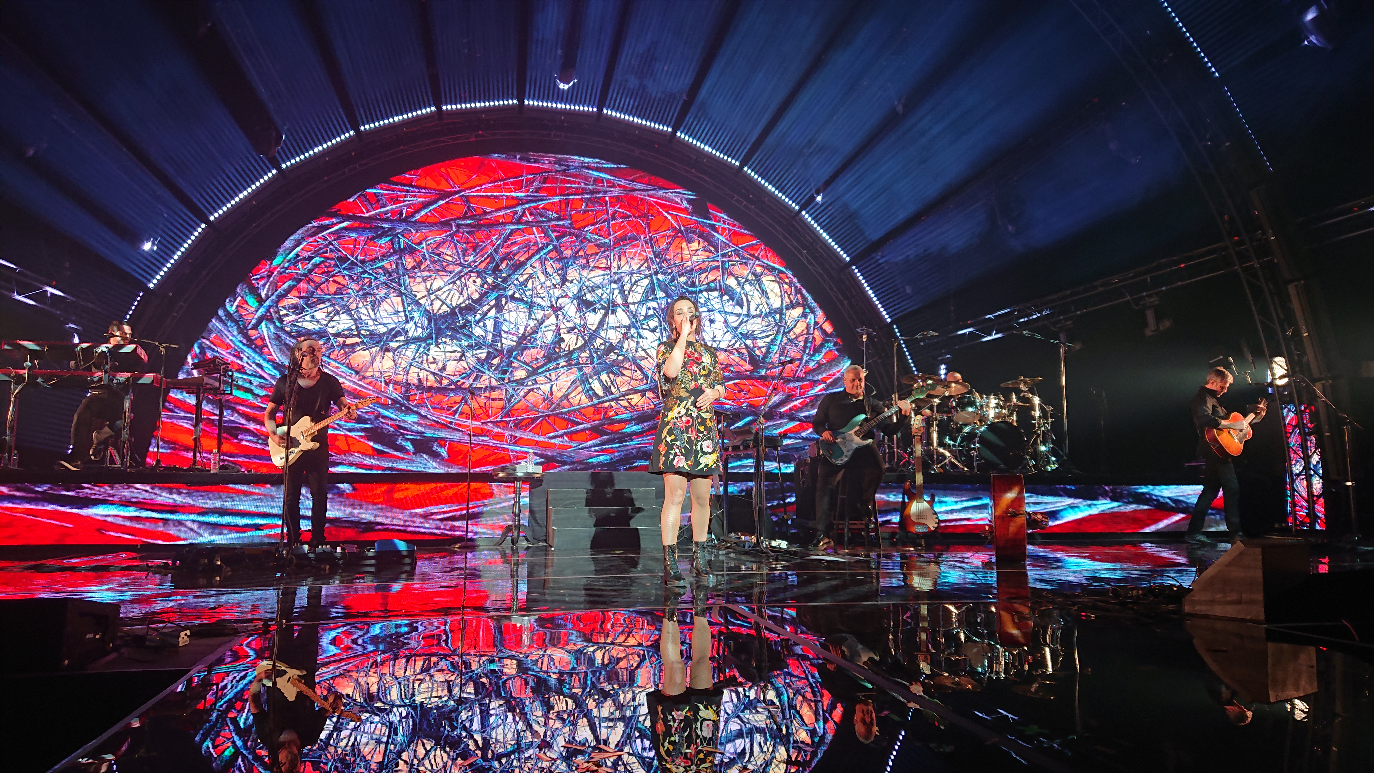 ZAZ - Moscow - Krokus - 2018